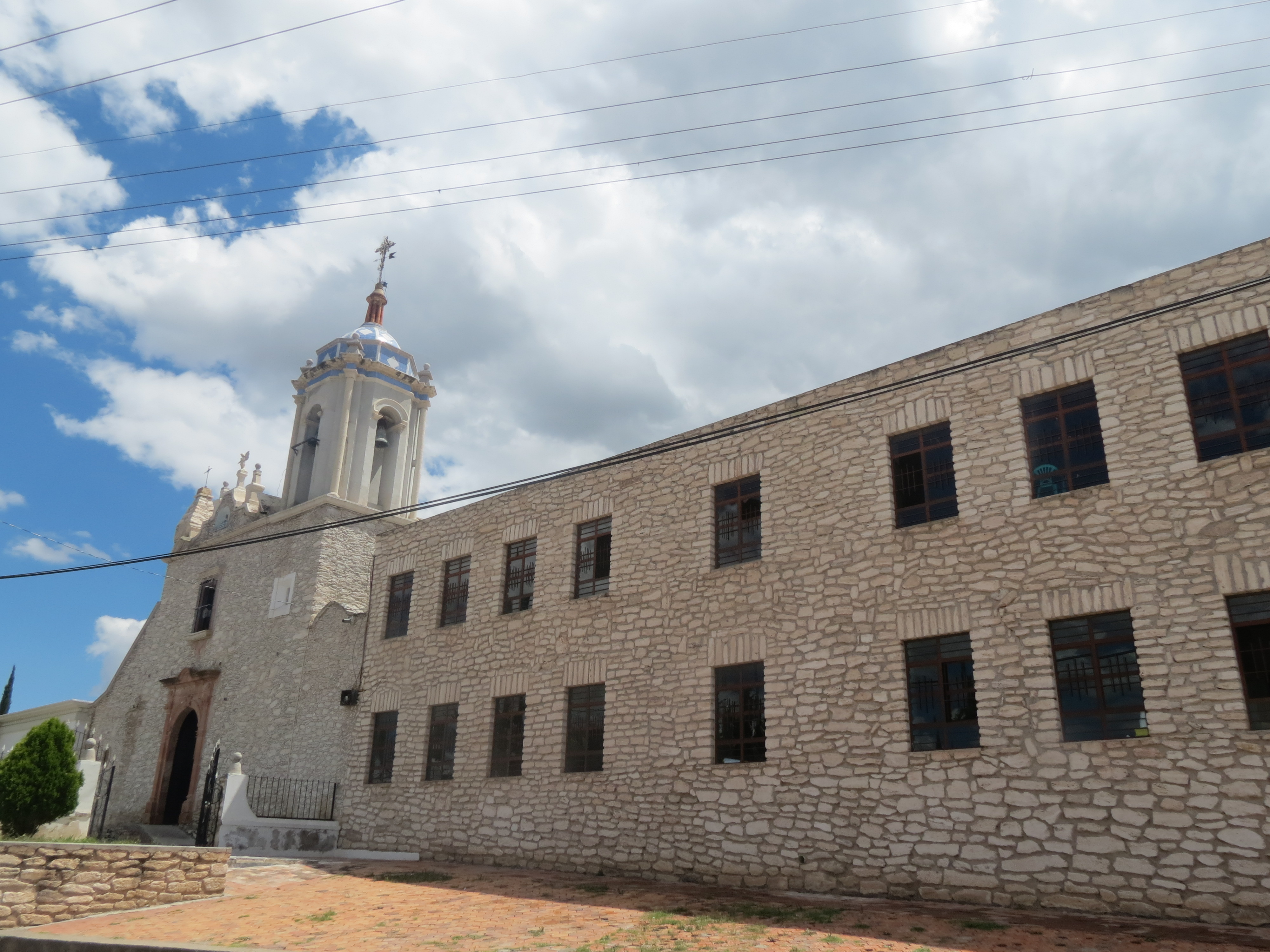 Templo del Señor de Tepezalá en el municipio del mismo nombre. Aguascalientes, Ags.